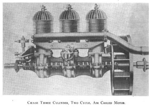 Chase Motor Truck Company - Air-cooled three cylinder, two stroke engine 1909